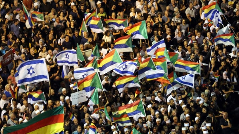 Tens of thousands of Israeli Druze and Jews in a rally with Druze and Israeli flags on 4 August 2018 against the Nation-State Law